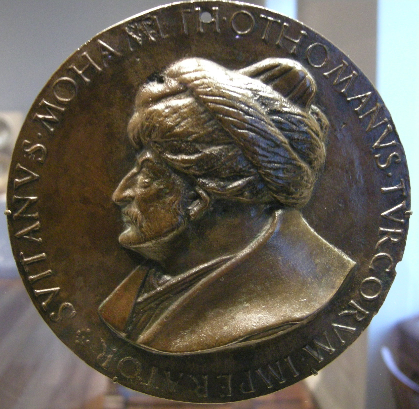 Mehmet II, 1477-80, recto